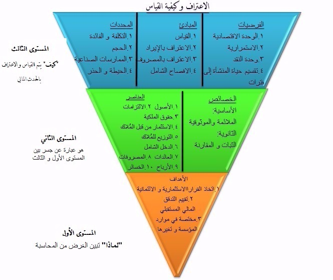 The conceptual framework of accounting